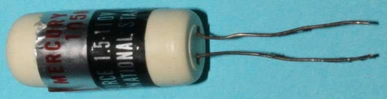 Mercury tilt switch, encapsulated model, switching voltage 1,5…110 VUC